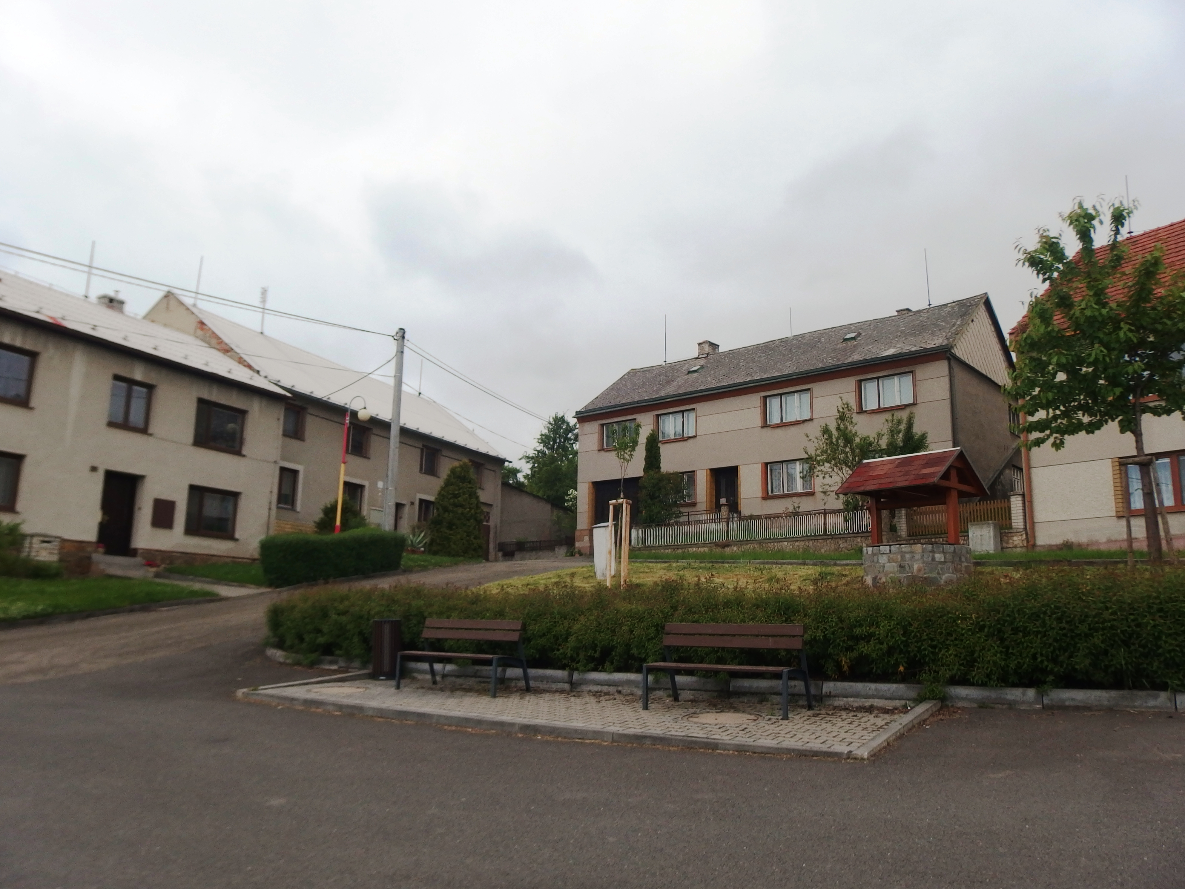 Oprostovice, Přerov District, Czech Republic.